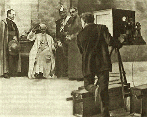 In April - May 1898 the Englishman William Kennedy Laurie Dickson of the American Mutoscope & Biography Company cinematographed Pope Leo XIII in the gardens of the Vatican. It was the first time that a Pope appeared before a film camera and blessed it (and the spectators).